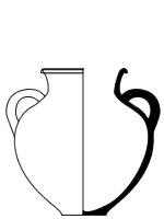 GIF - Kados